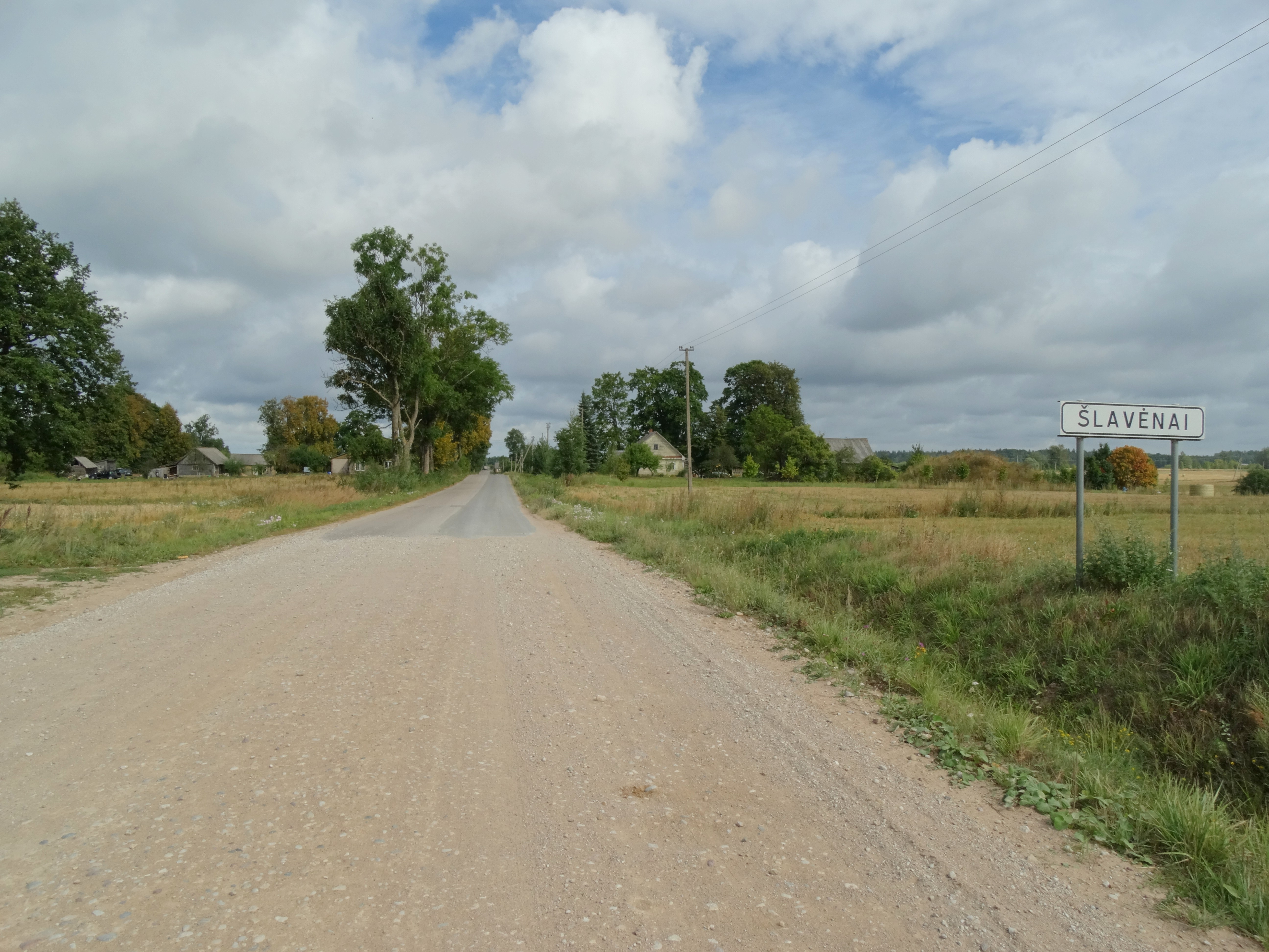 Šlavėnai, Anykščiai district, Lithuania